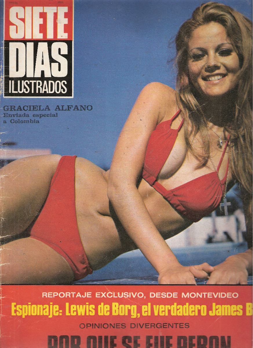 Graciela Alfano on cover of Siete Días Ilustrados, 1972